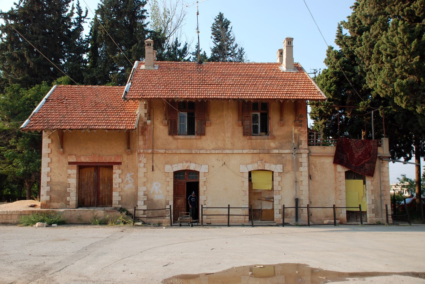 Baalbek, Lebanon, railway station from 1902